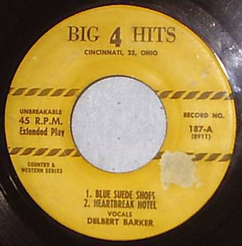 Blue Suede Shoes & Heartbreak Hotel by Delbert Barker, Big 4 Hits 1956. Originally recorded by Carl Perkins and Elvis Presley.